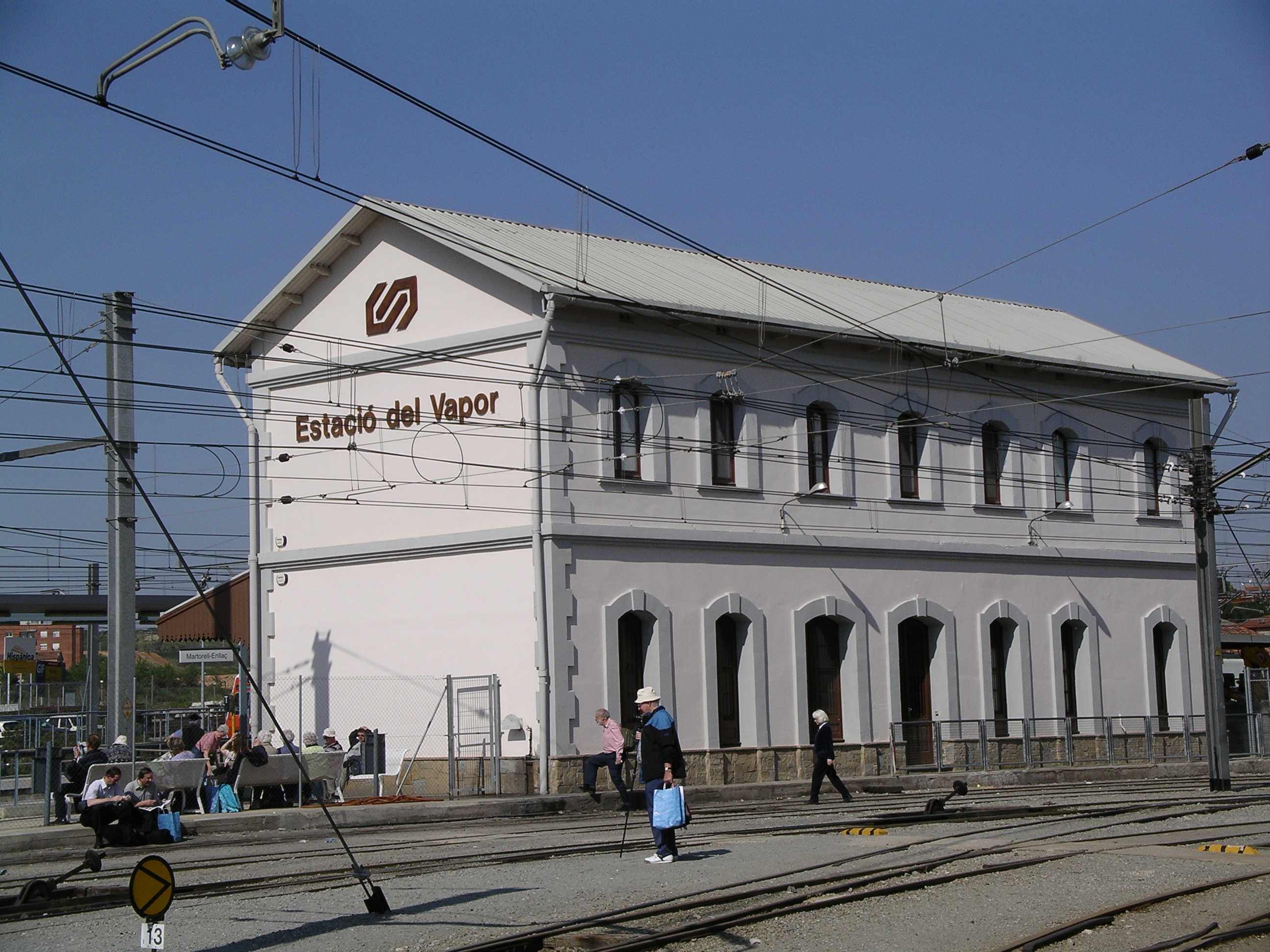 The steam railway terminal at Martorell-Enllaç station in Catalonia,Spain